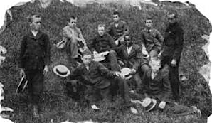 Boys, House of Reformation, Rainsford Island, Boston Harbor, Massachusetts